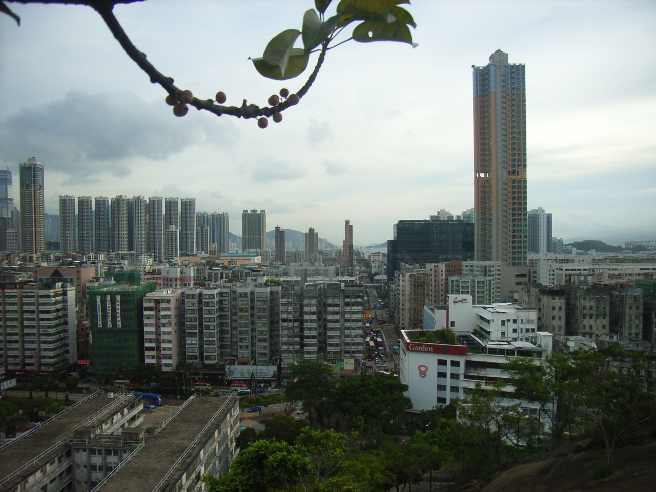 深水埗區石硤尾